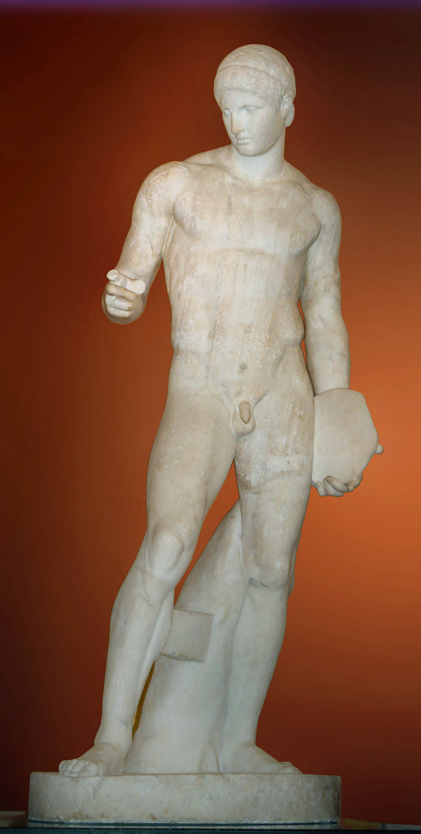 Discophoros (athlete holding a discus). Roman copy from the 2nd century AD after an early 4th century BC original sometimes assigned to the sculptor Naukydes. The head is restored after another version in the Vatican Museums.This is an edited version of an original picture taken by Steve F-E-Cameron (Merlin-UK) Commons "SFEC BritMus Roman 016.JPG", "self2-GFDL-cc-by-sa-2.5,2.0,1.0"